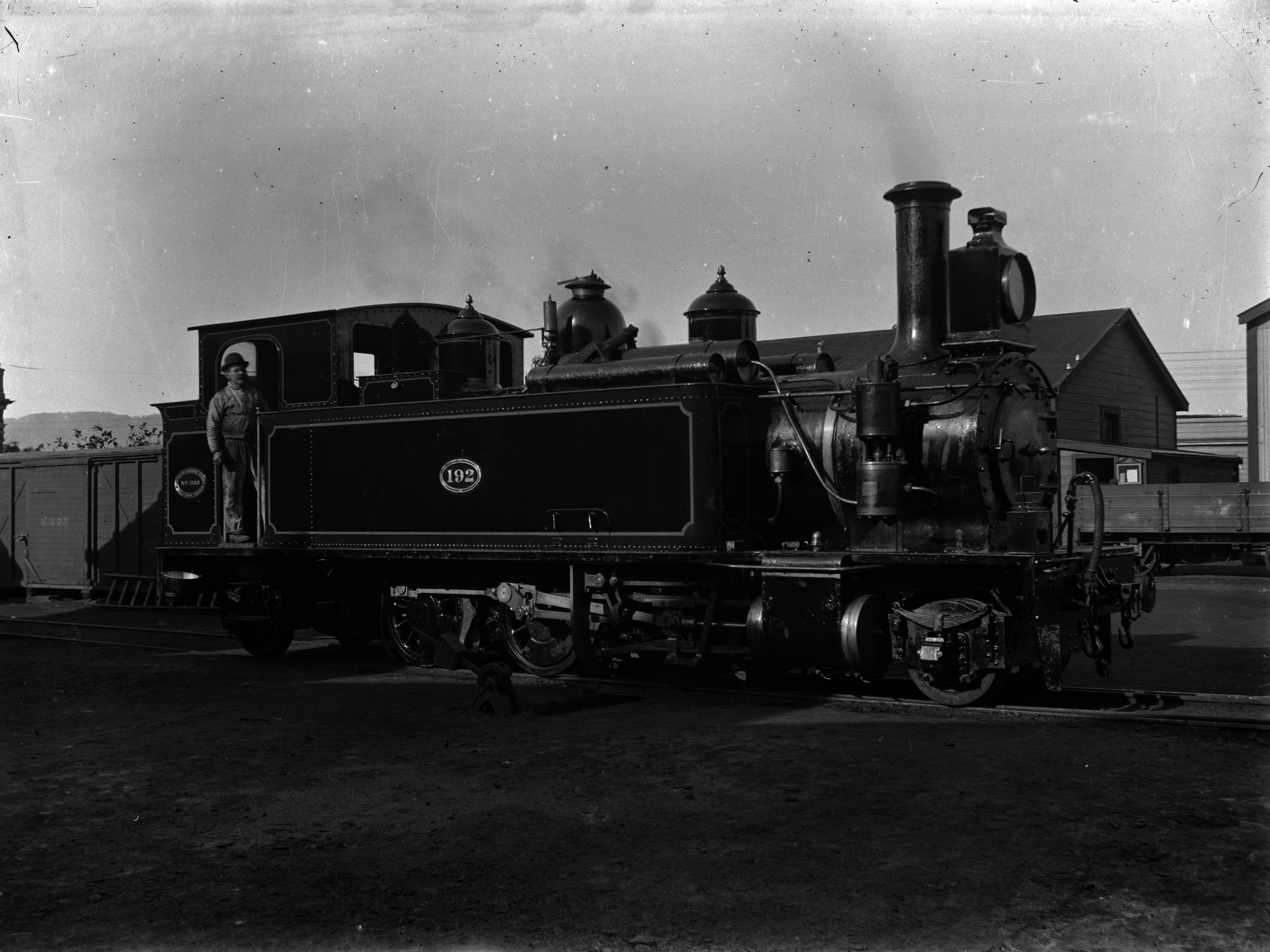 "W" 192, steam locomotive (2-6-2T type) as altered at Petone Workshops for service on the Rimutaka Incline. Photographed by Albert Percy Godber.